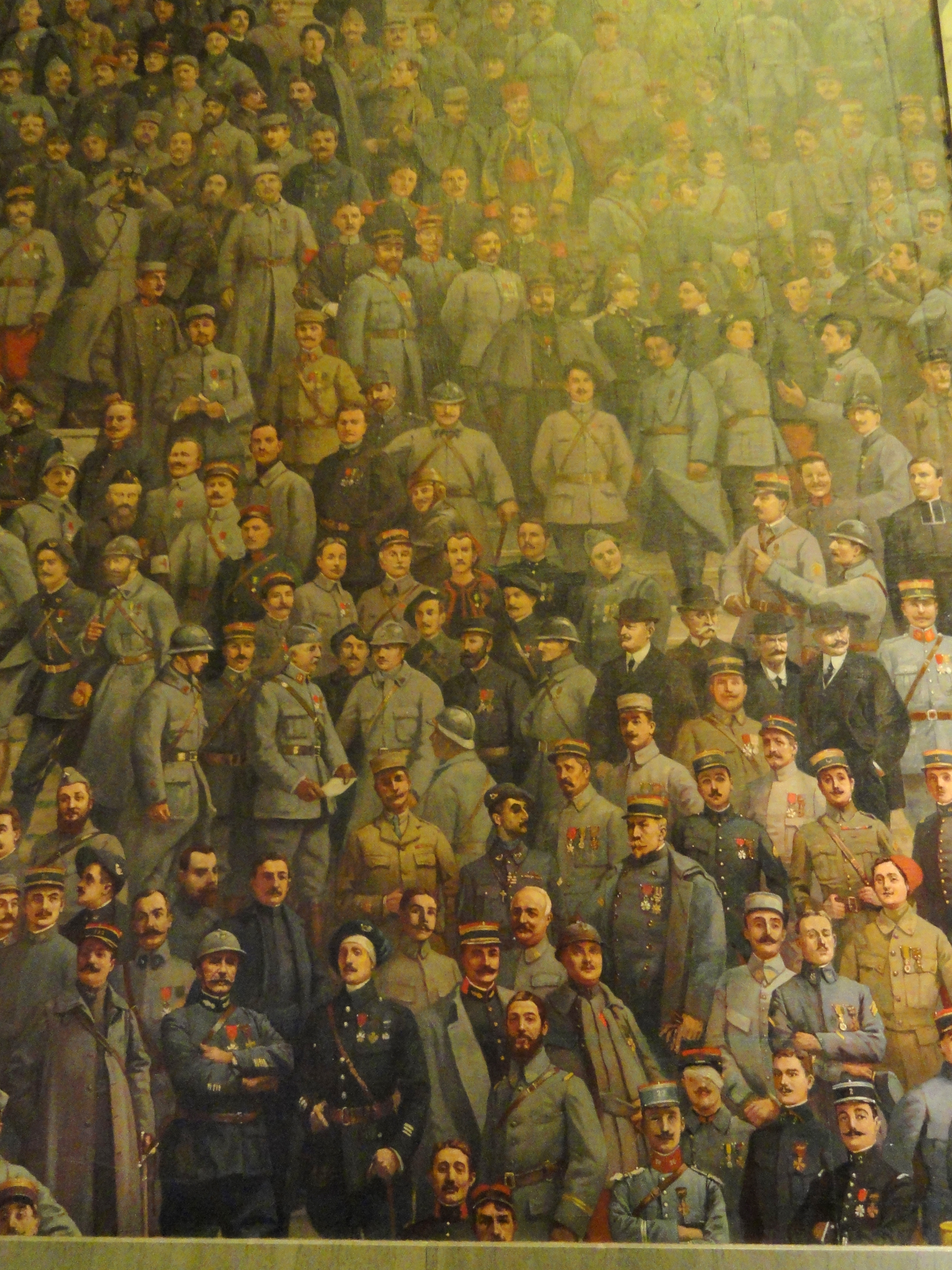 Memory Hall in the National World War I Museum at the Liberty Memorial, 100 W. 26th Street, Kansas City, Missouri, USA.